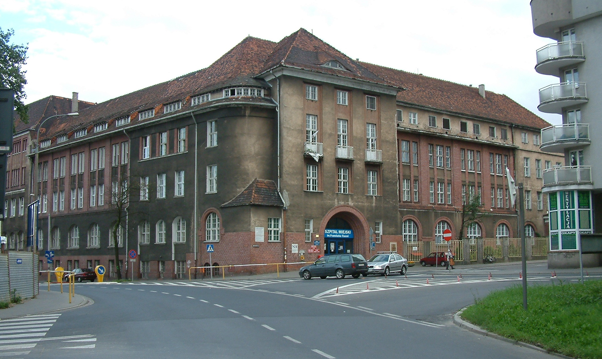 Raszeja Hospital in Poznań.